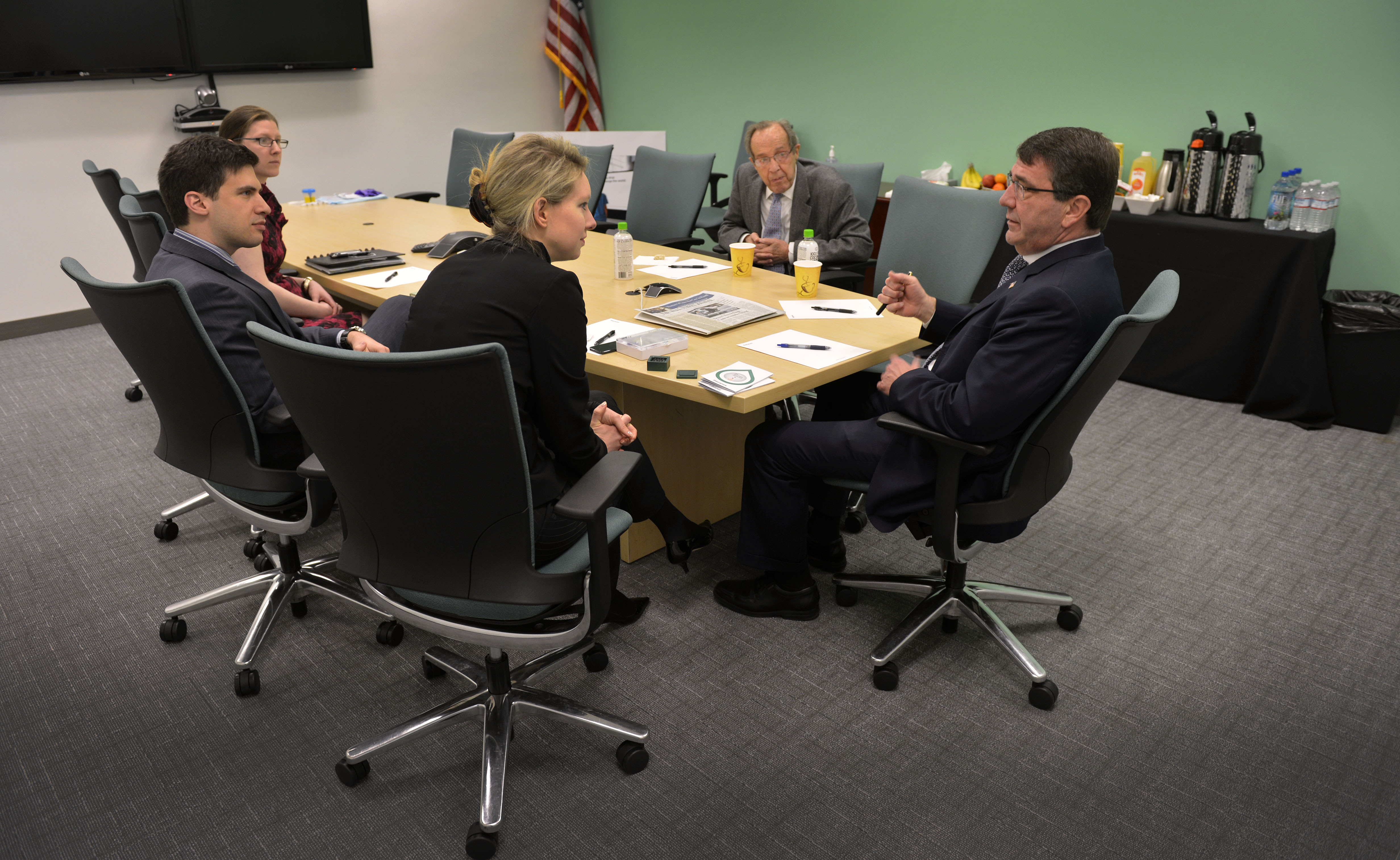 Deputy Secretary of Defense Ashton B. Carter and former Secretary of Defense William Perry sit down for a meeting with Theranos CEO and founder Elizabeth Holmes as they pay a visit to several high tech companies in Palo Alto, California, April 17, 2013. Theranos is a healthcare company focusing on real-time diagnosis and monitoring of targeted ailments in a non-invasive fashion. (DoD Photo By Glenn Fawcett) (Released)